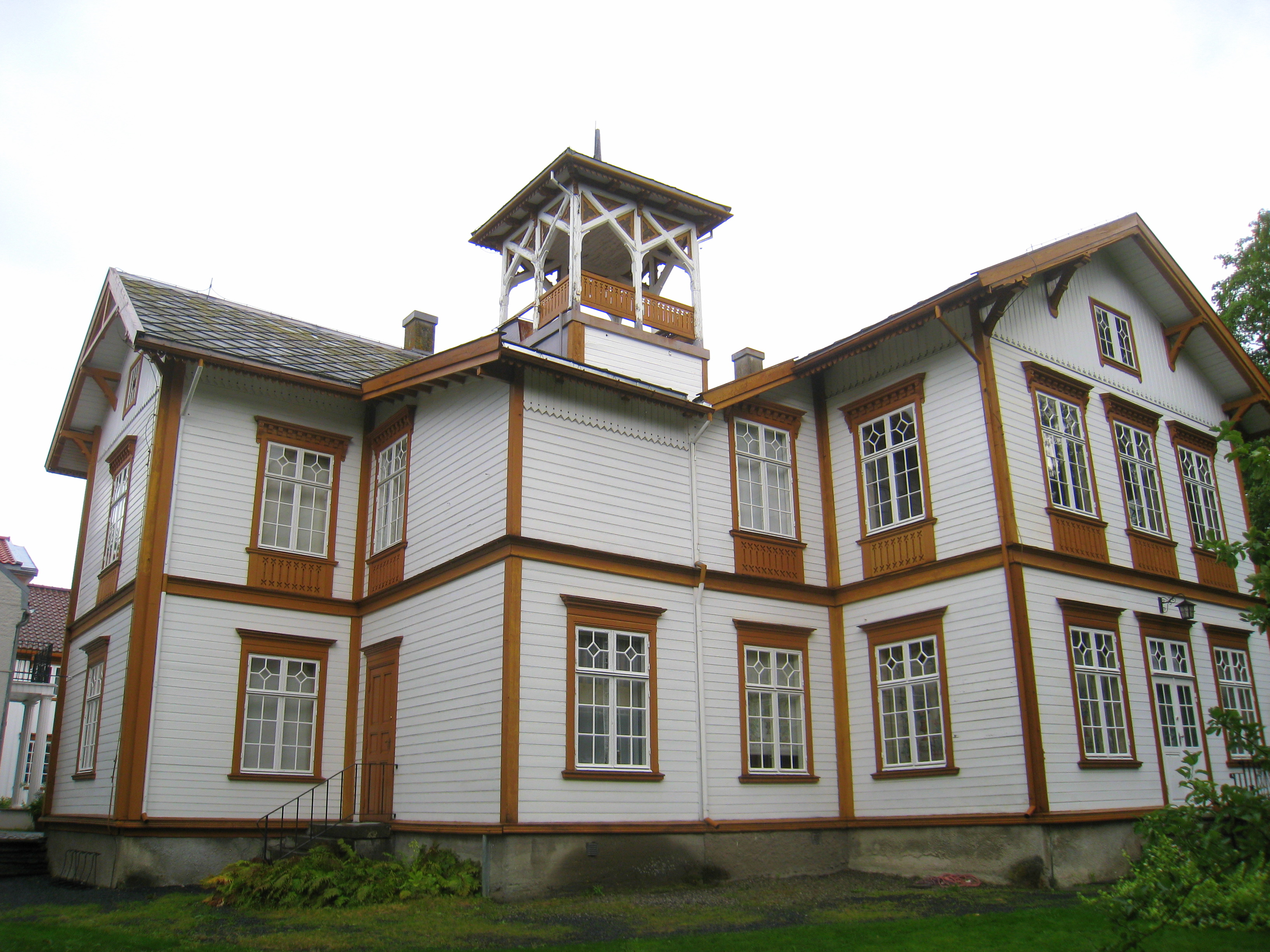 Ringve Museum, Trondheim, Norway.